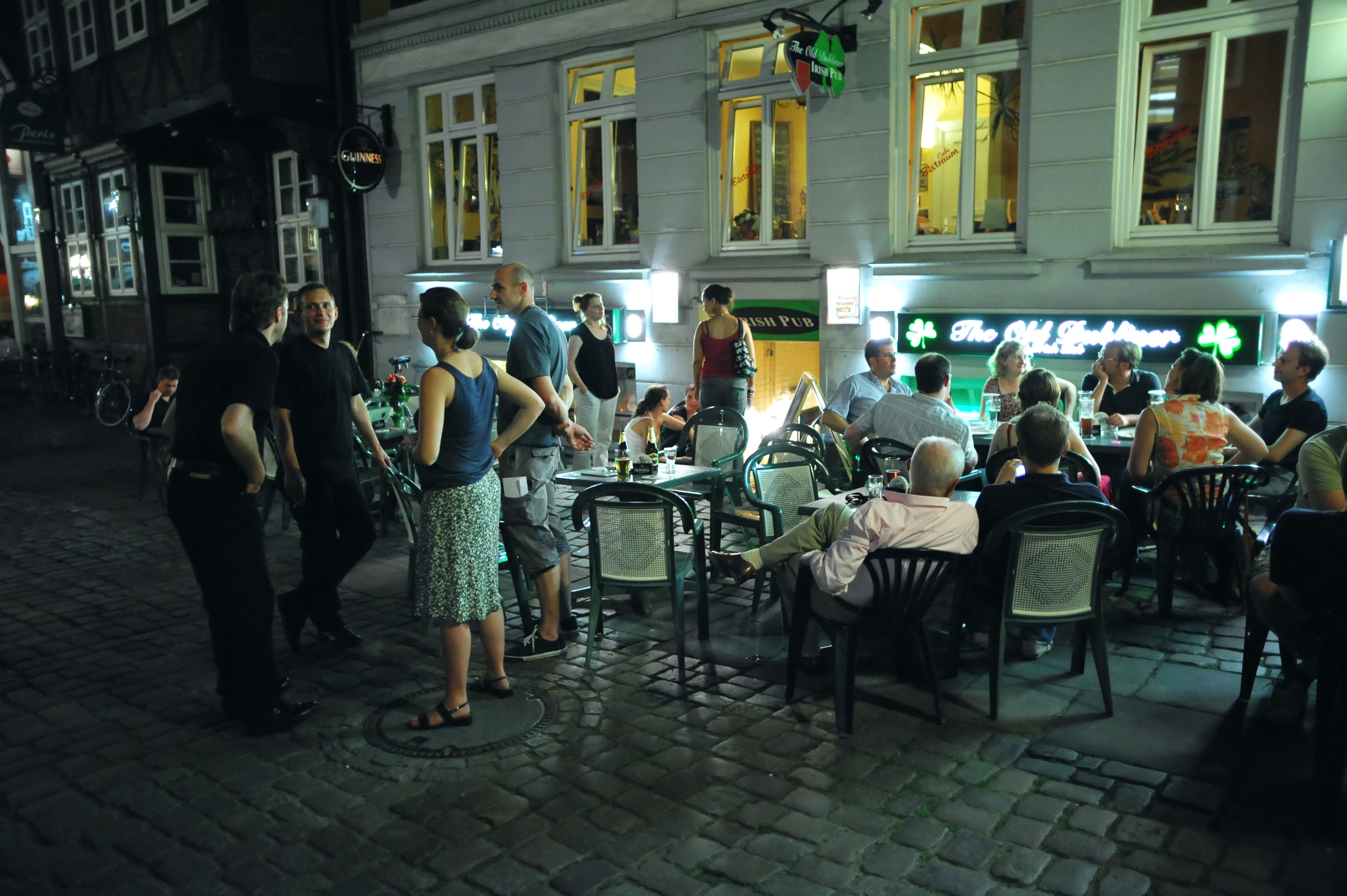 The Old Dubliner Irish Pub, Hamburg-Harburg